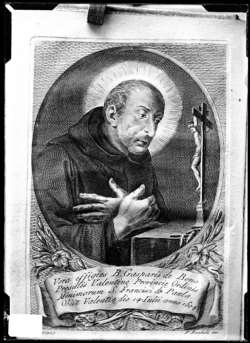 Engraving with Blessed Gaspar de Bono. Retrato del beato Gaspar Bono, ilustración de Francesco Folch Miloni: "Vita del Beato Gasparo de Bono", Roma, 1786. Inscripción: "Vera effigies B. Gasparis de Bono Praesidis Valentinae Provinciae Ordinis Minimorum S. Francisci de Paula. Obiit Valentiae die 14 Julii anno 1604". Firmado y fechado al pie: Romae 1786 / Ps Bombelli inc.